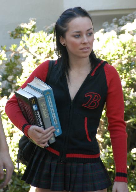 Jan 19 2007: Shoots Barely Legal 70 In Beverly Hills.